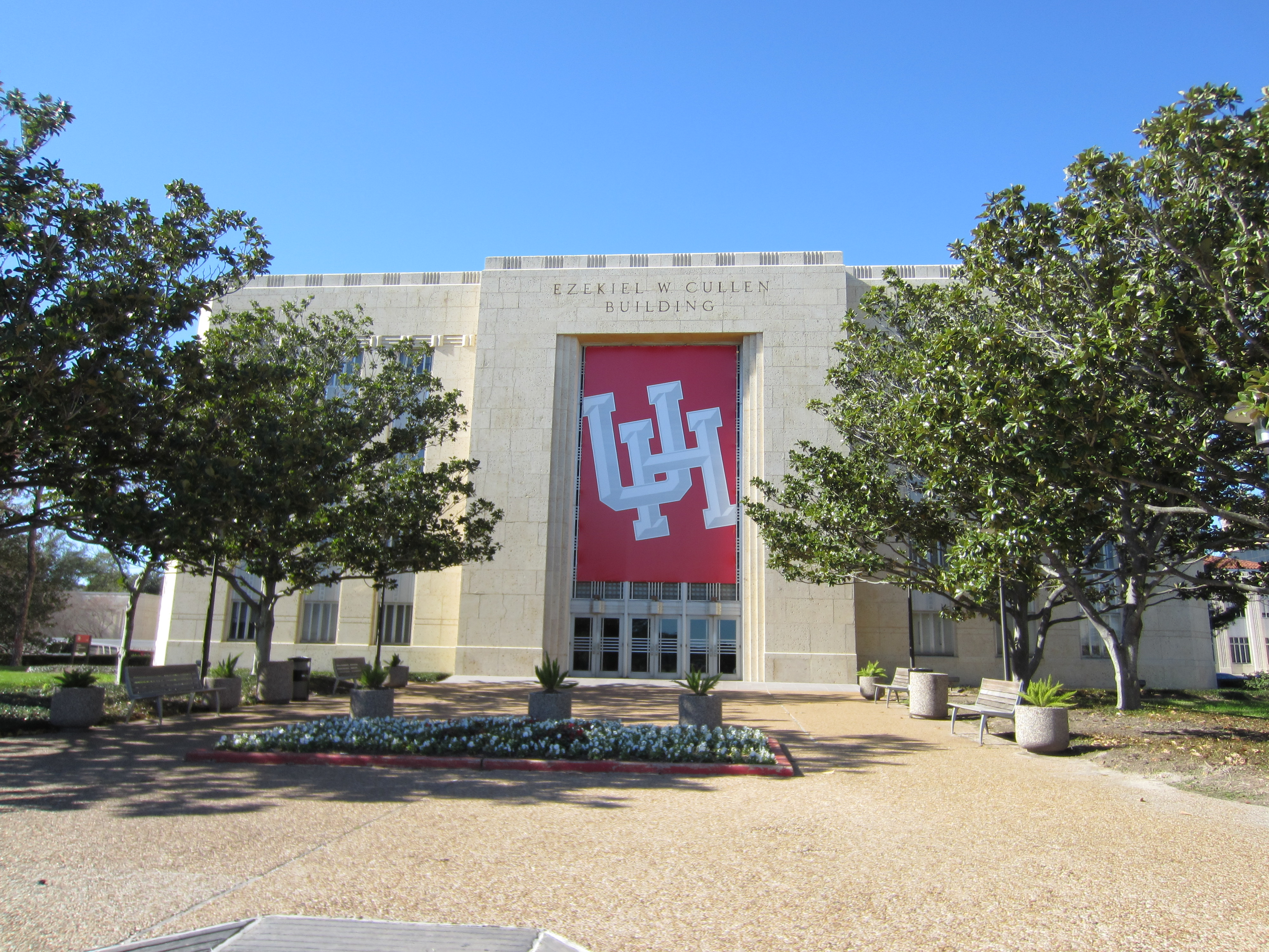 The Ezekiel W. Cullen Building at the University of Houston in January 2012